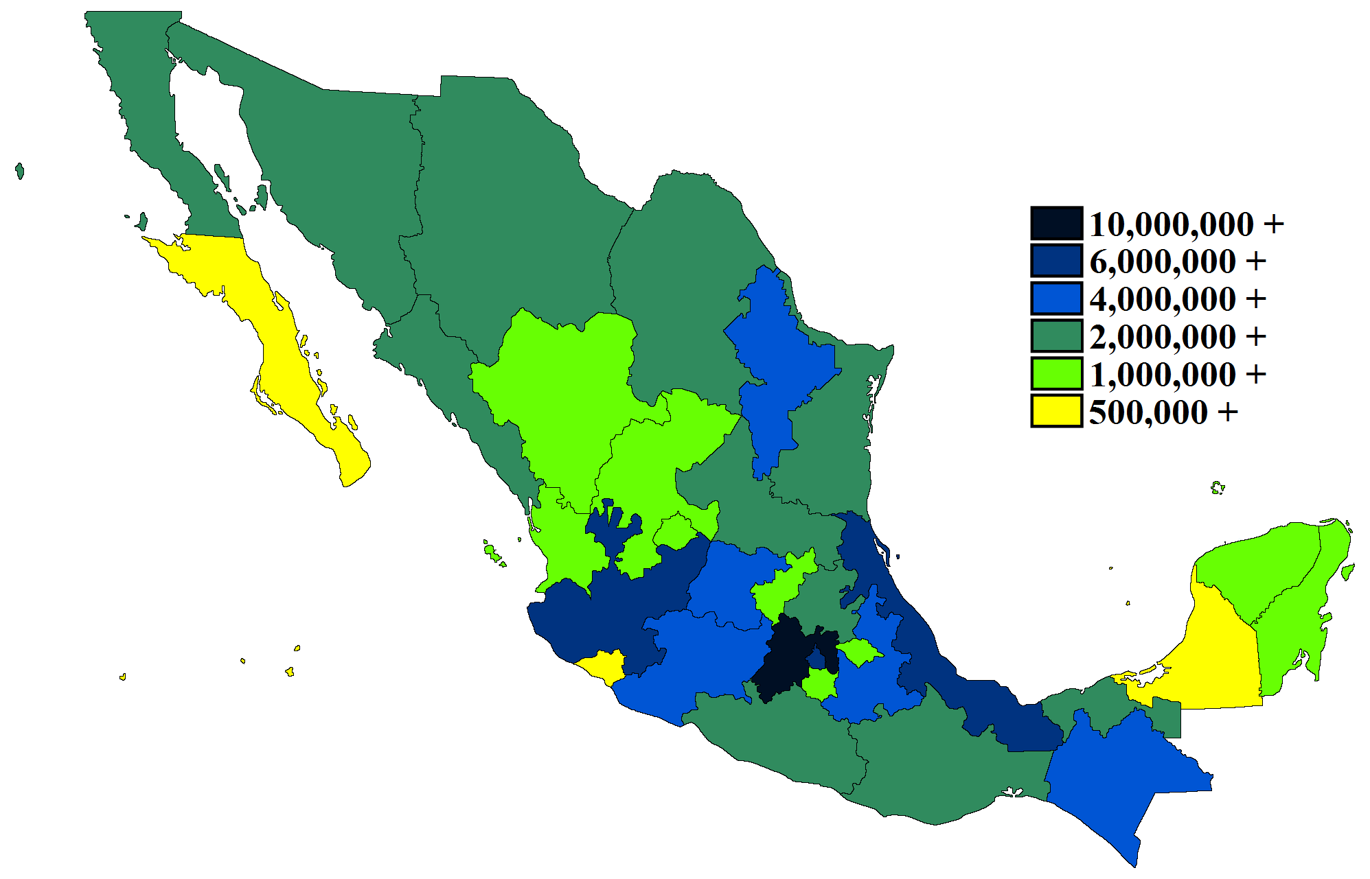 Mexican states by population 2011